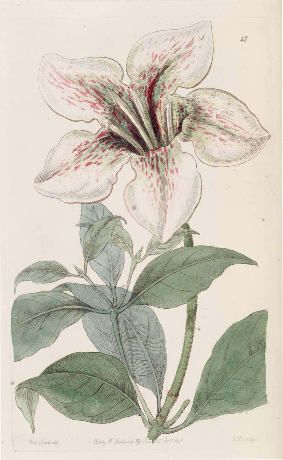 Rothmannia longiflora